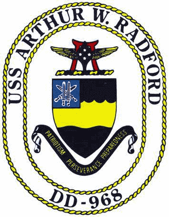 Ship's crest from USS Arthur W. Radford